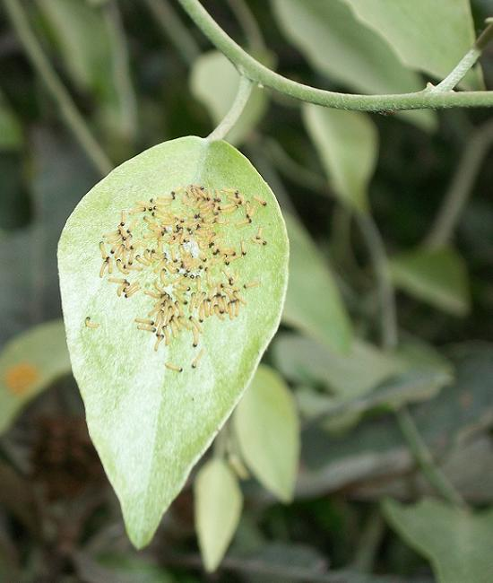 African Common White larvae on leaf of Capparis fascicularis var. zeyheri from Amanzimtoti, South Africa.